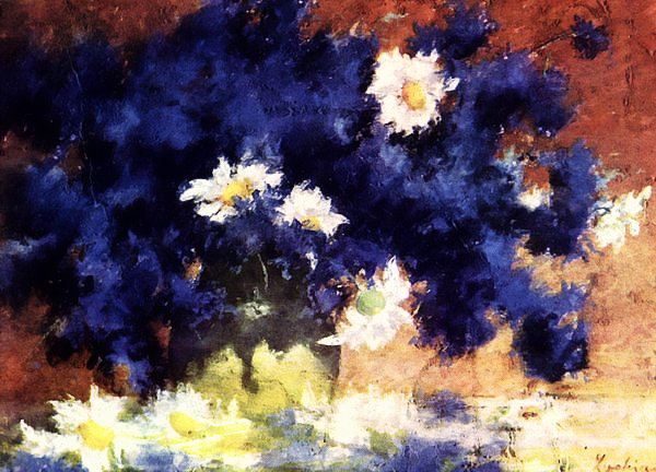 Albăstrele - Corn flowers